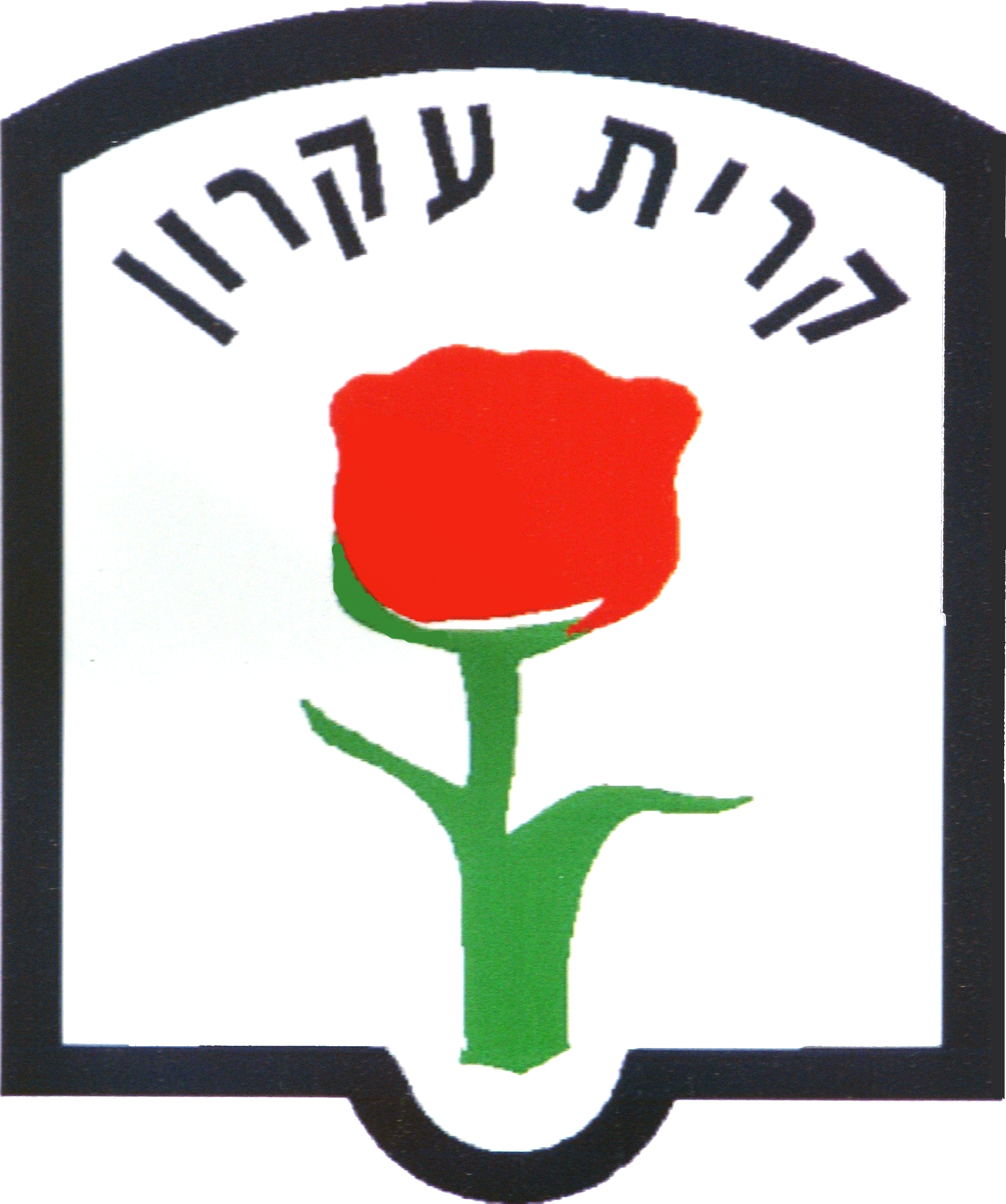 Coat of Arms of the municipality of Kiryat Ekron. Officially adopted as COA in March 1972